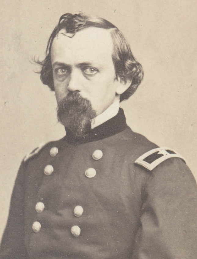 photo of Charles P. Stone (1824-1887)